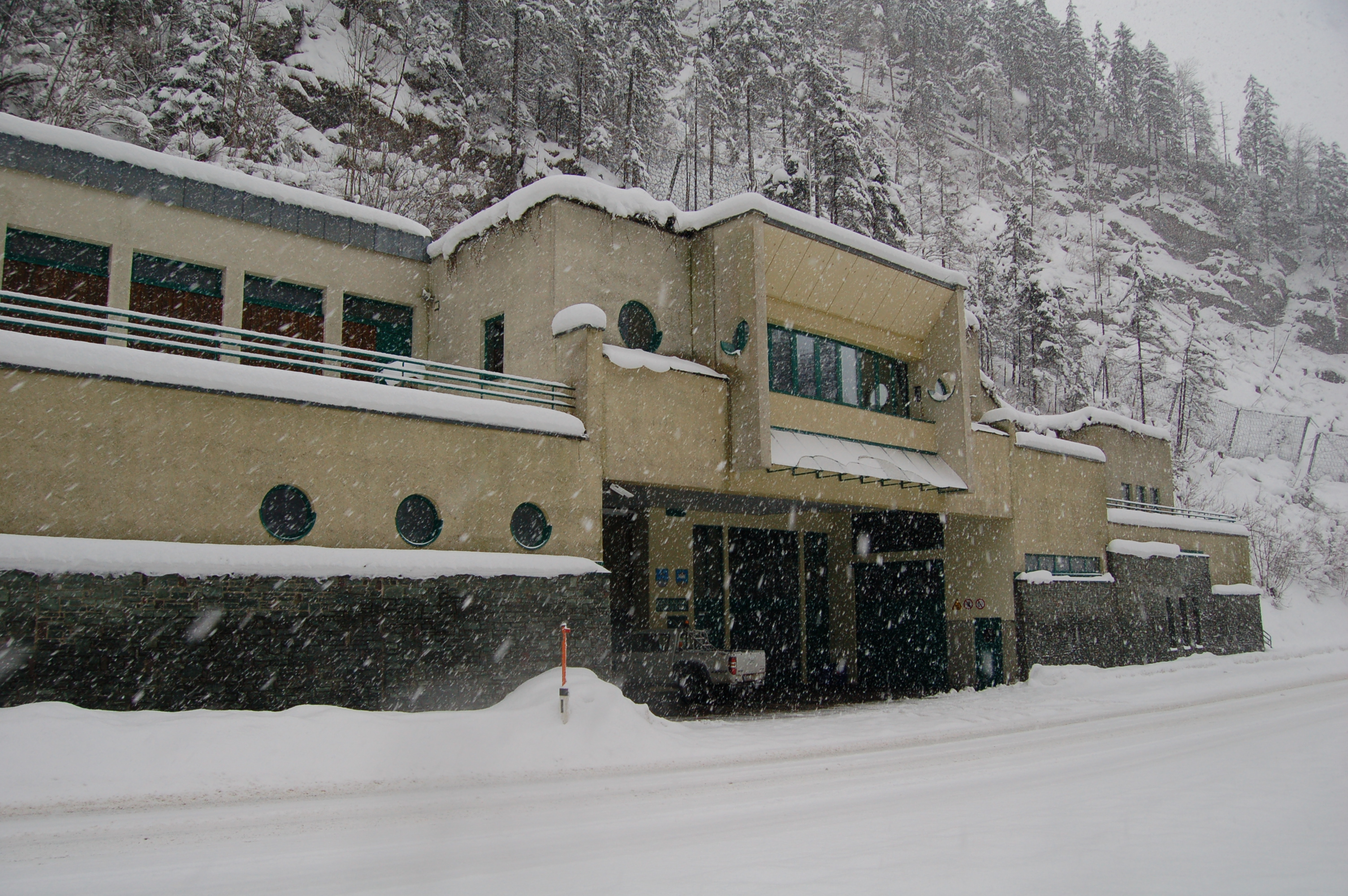 Sewage treatment built into the mountain Poppenberg in Hinterstoder, finished 1994